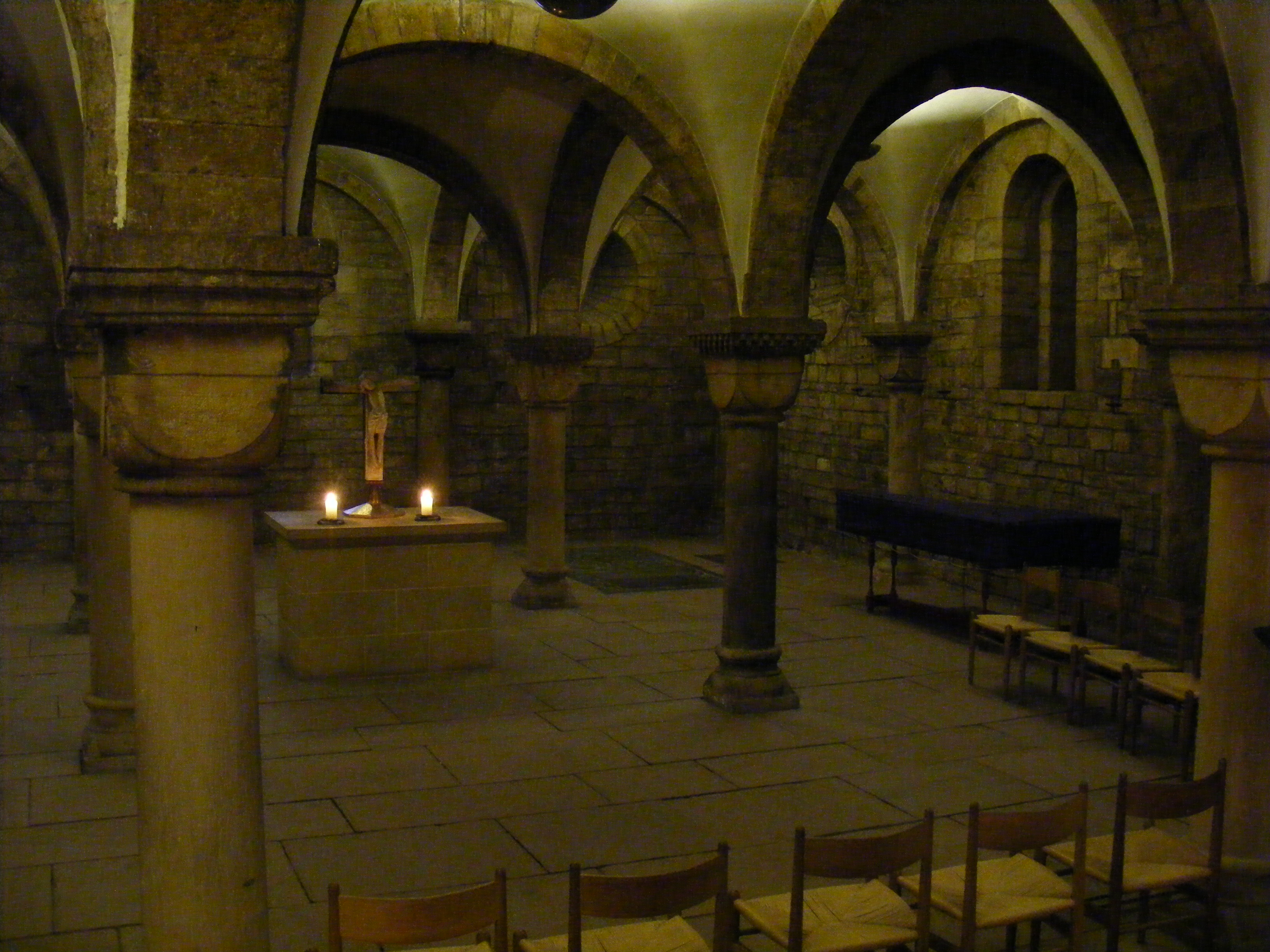 Bremen Cathedral, eastern crypt